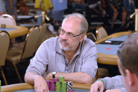 sklasky on action